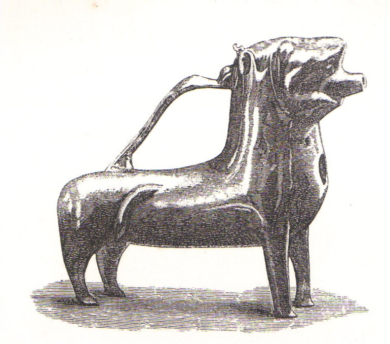 The Lion Ewer found in Kilbirnie Loch, 1872